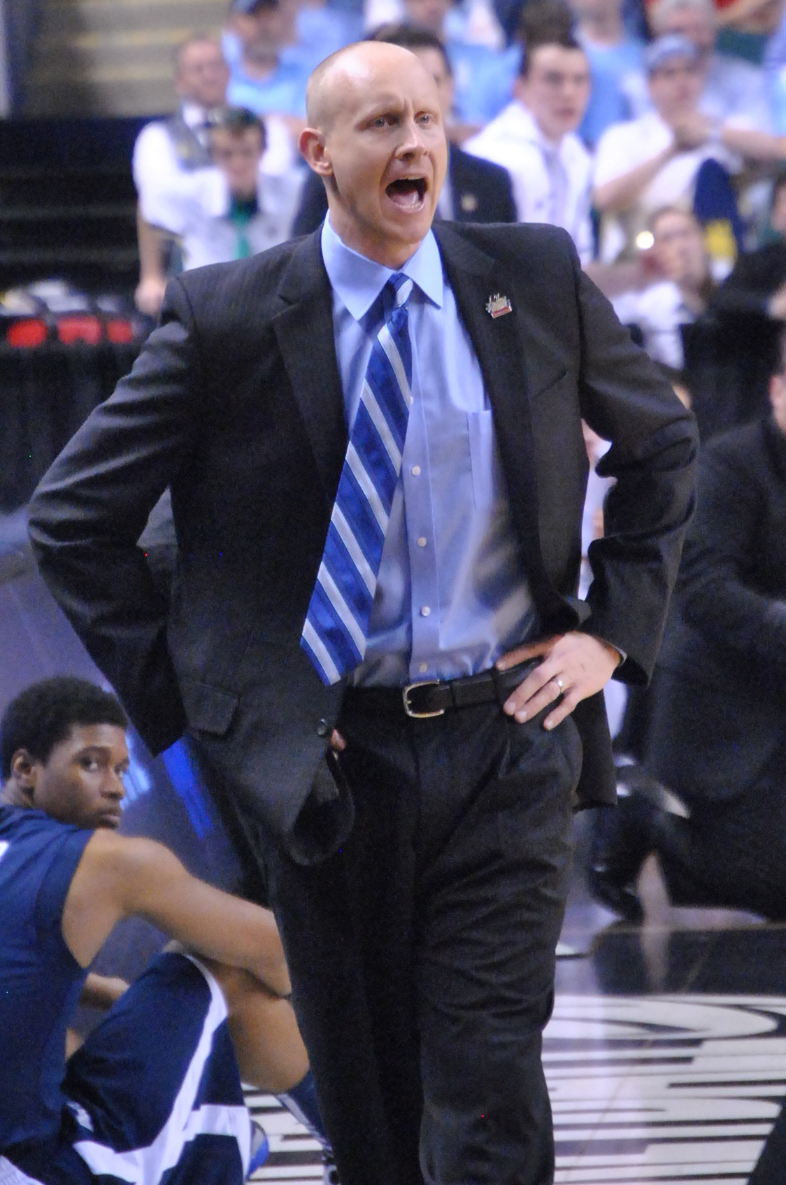 Xavier Coach Chris Mack shouts instructions to his Musketeers.